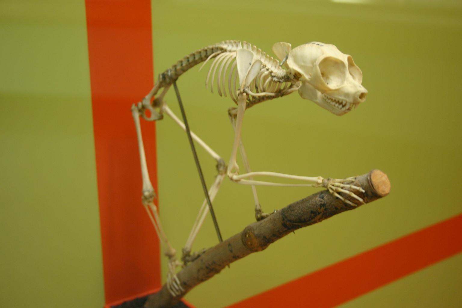 Loris tardigradus malabaricus Visit my blog at